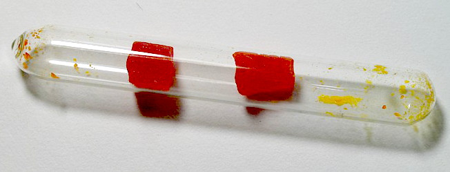 Pieces of chloroplatinic acid "crystals" in a tube